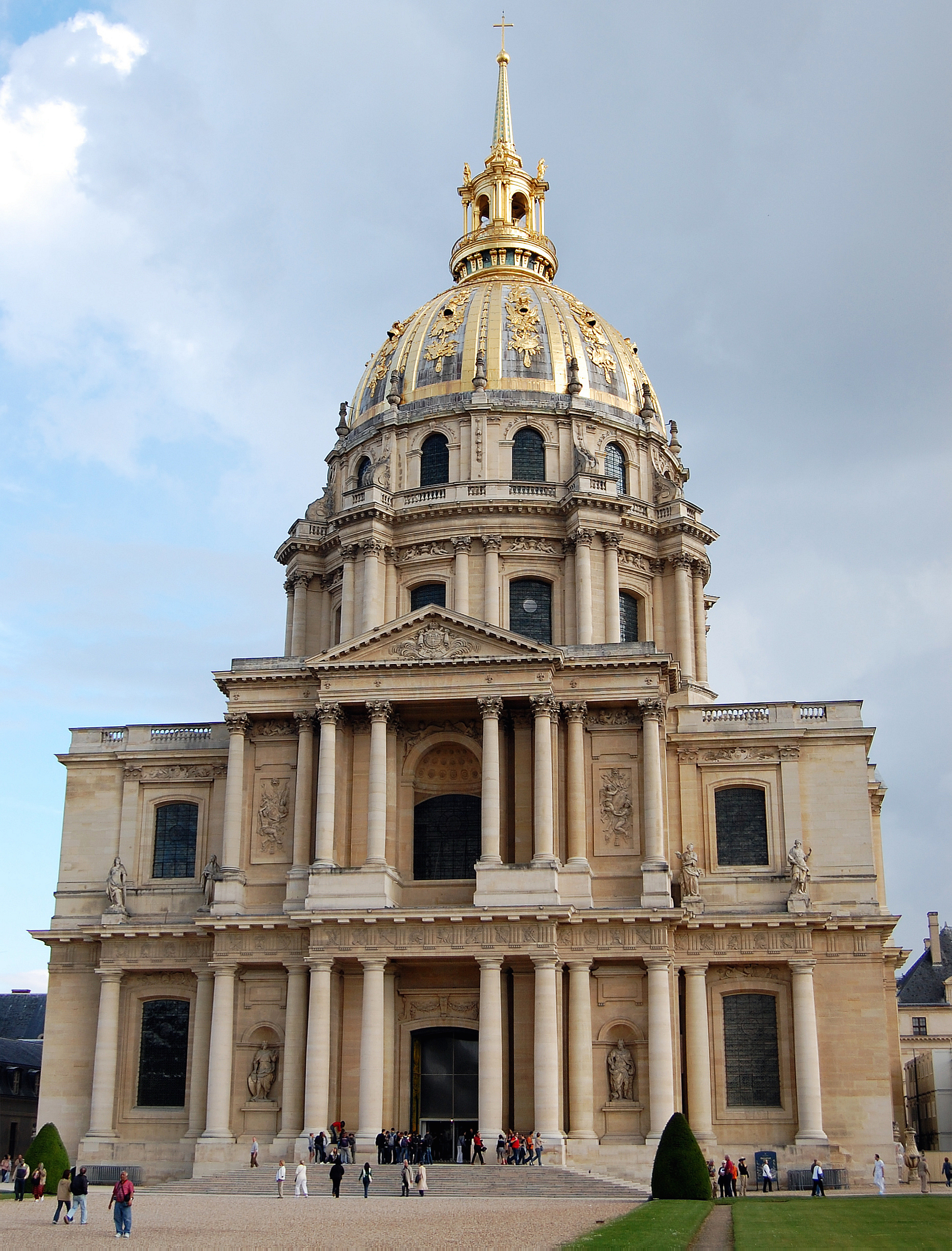 Les Invalides